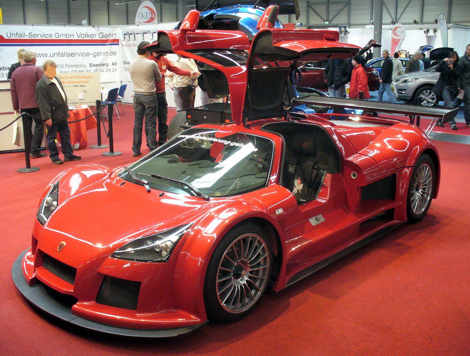 Gumpert Apollo